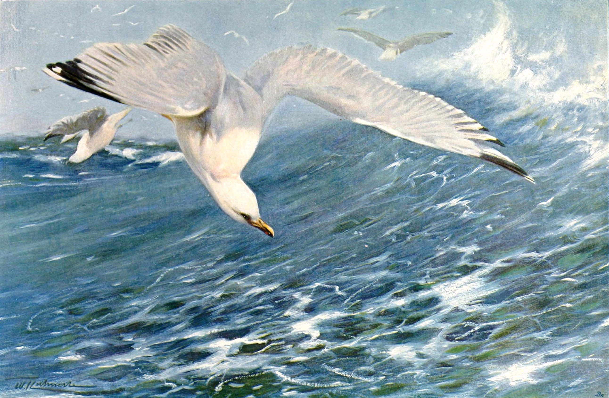 Larus argentatus = European Herring Gull